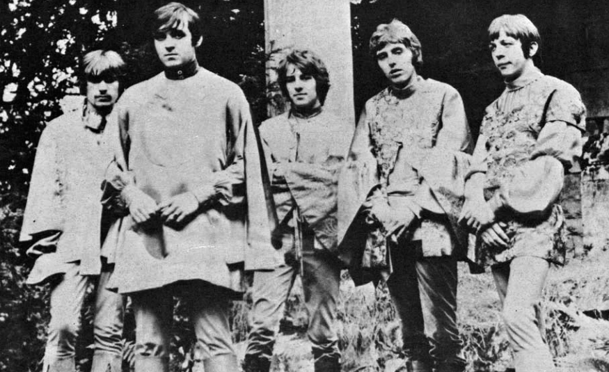 British rock group Procol Harum, in 1967. Band members are: Gary Brooker (lead vocals, piano), Robin Trower (guitar, backing vocals), David Knights (bass), Matthew Fisher (organ, guitar, backing vocals) and B. J. Wilson (drums, percussion)